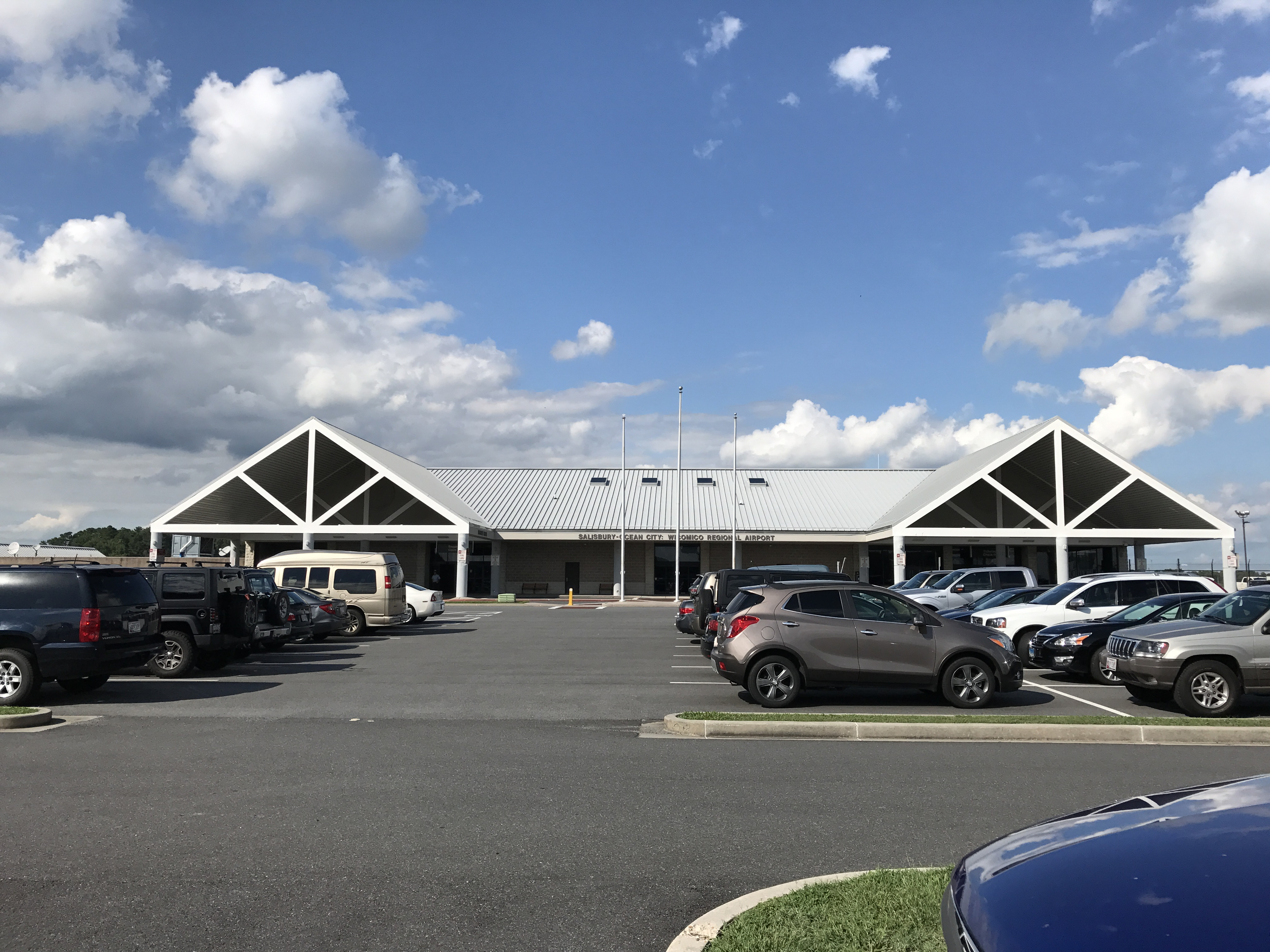 View of the Salisbury–Ocean City–Wicomico Regional Airport from the parking area.